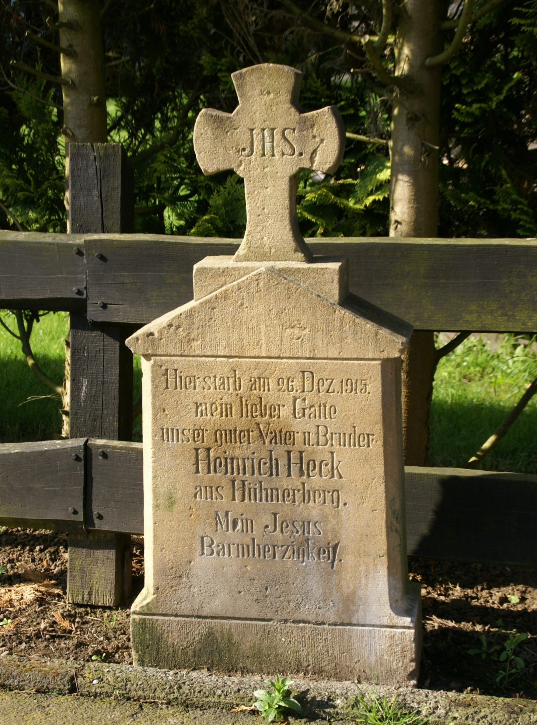 Wayside cross in Herresbach at the corner of Herresbacher Straße and Nonnenberger Straße